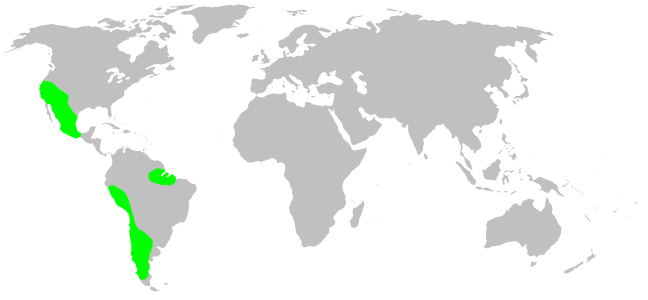 Diguetidae habitat distribution, drawn after Platnick: World Spider Catalog 7.0. This is not a precise rendering of the distribution! If you have better information, please replace this map, or send me the info, and i will redraw it.